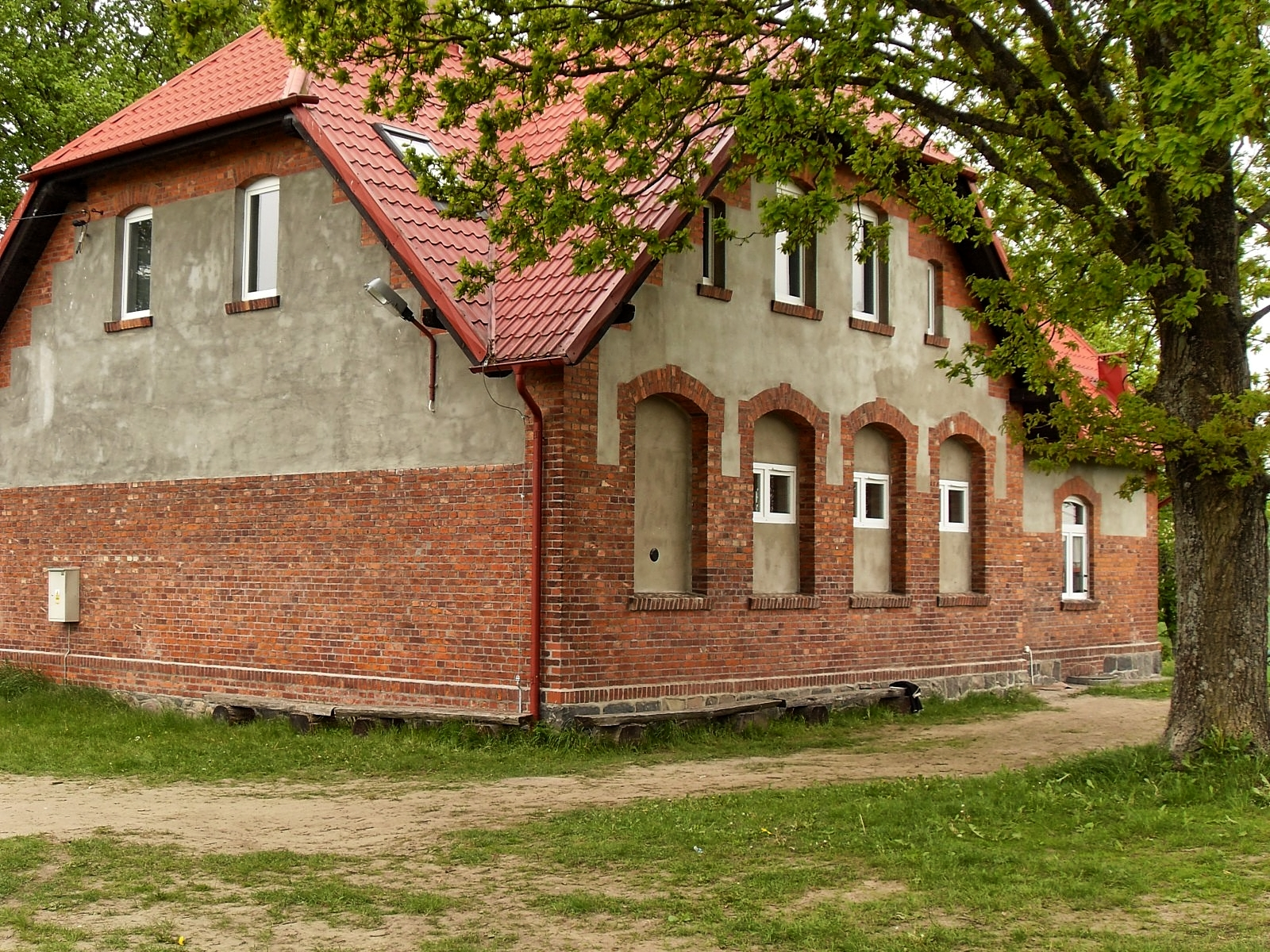 Building commons from the yard